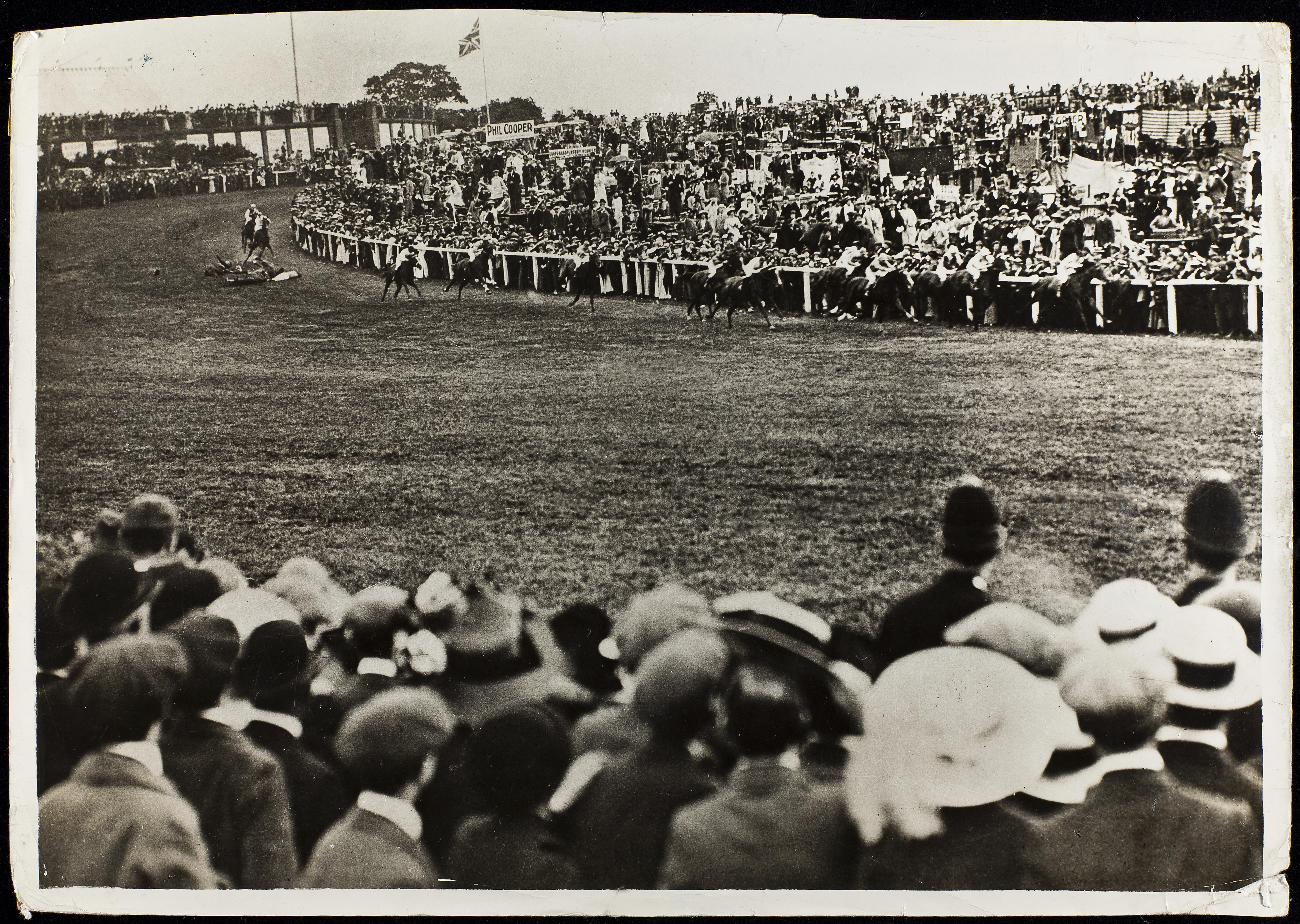 TWL/2004/321